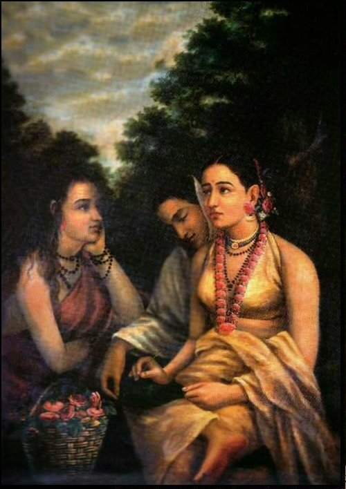 Shakuntala with Friends writing a letter to Dushyanta